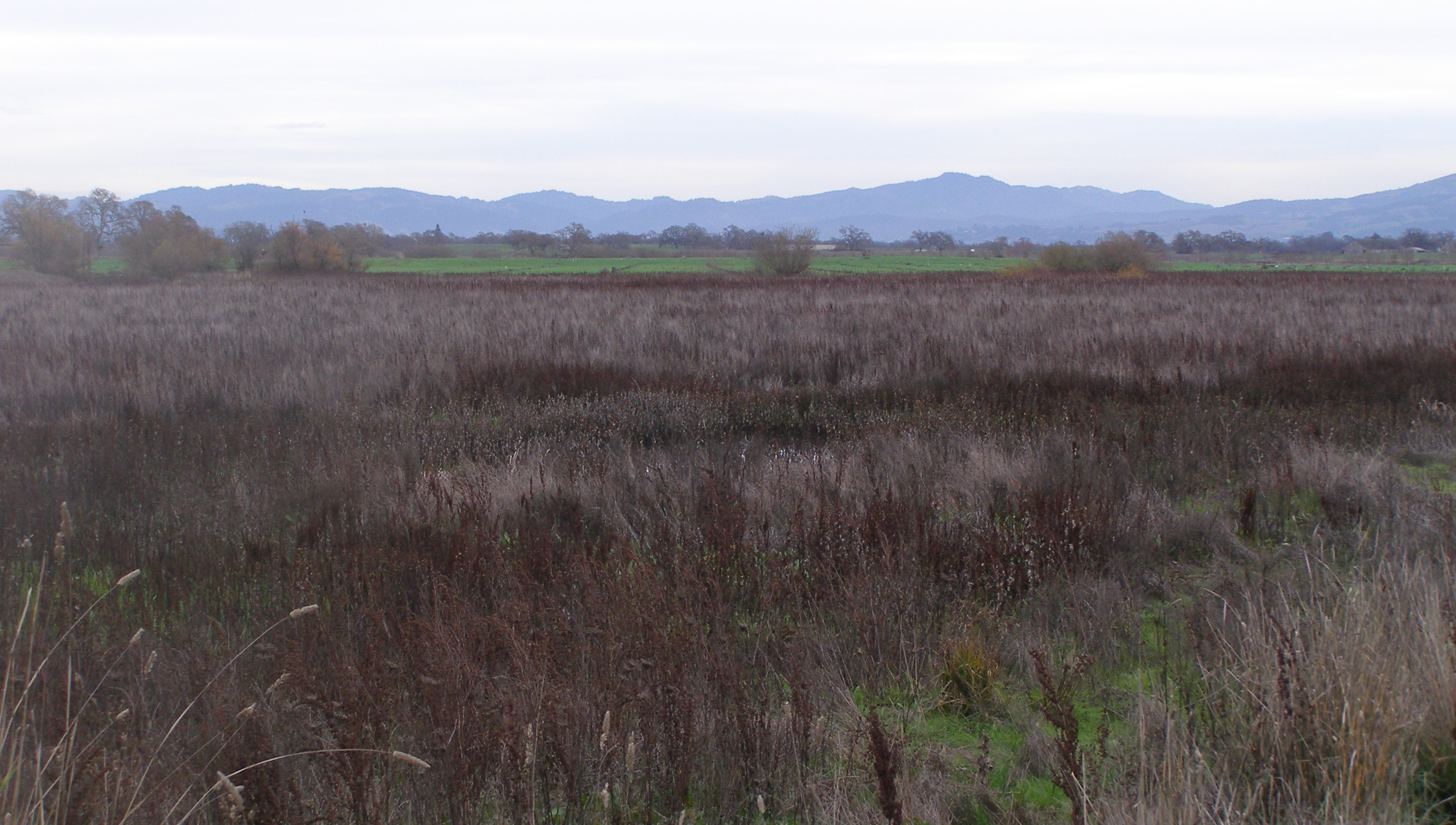 photographer:self